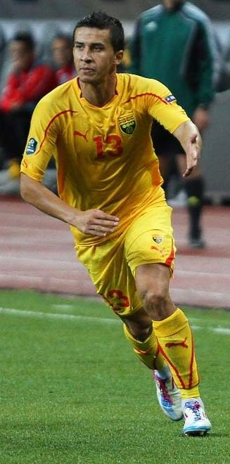 Daniel Georgievski with Macedonia national football team. The UEFA made a mistake with numbers, therefore the picture is mislabeled.